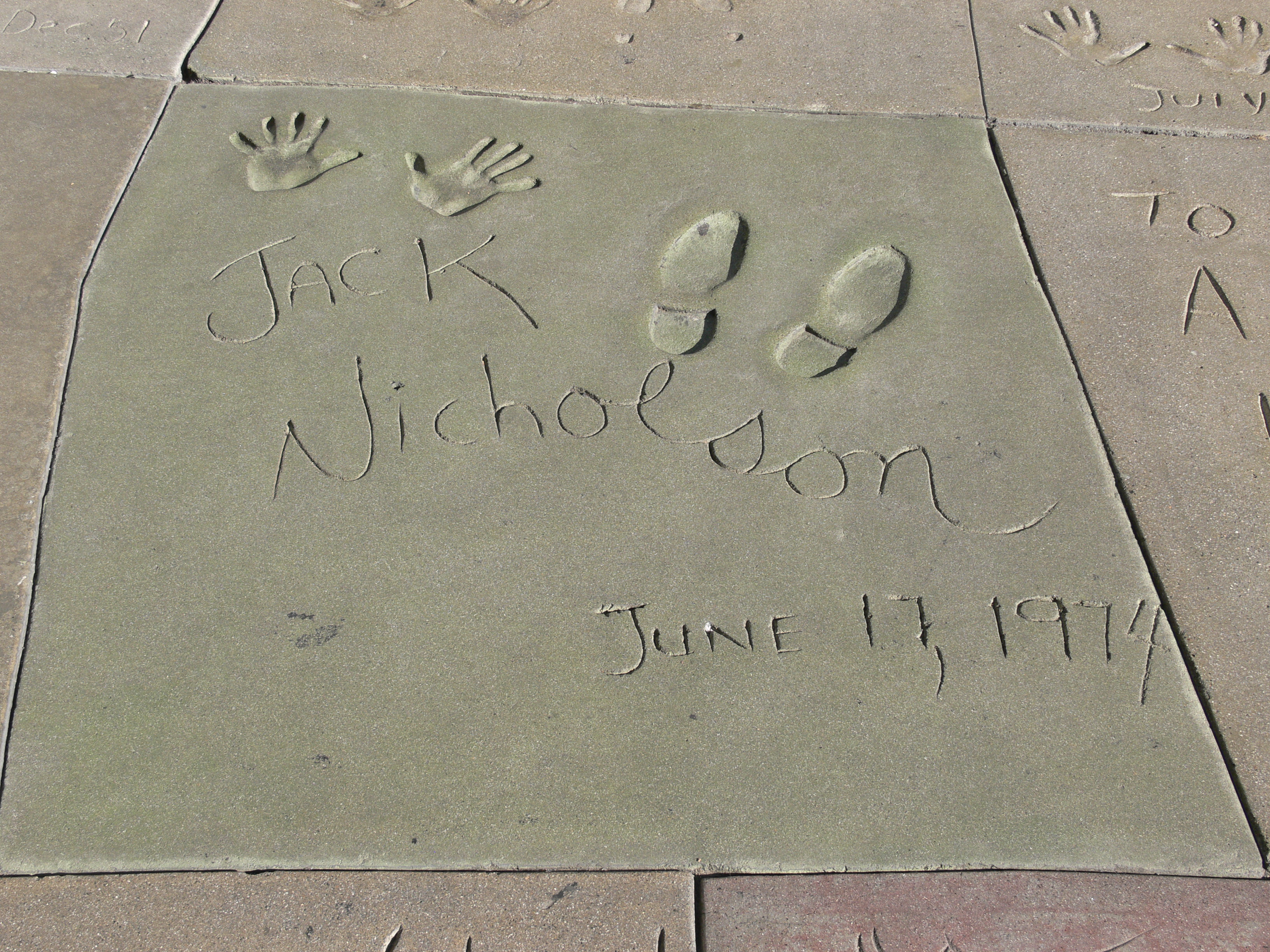 Courtyard of Grauman's Chinese Theatre, Hollywood Boulevard, Los Angeles